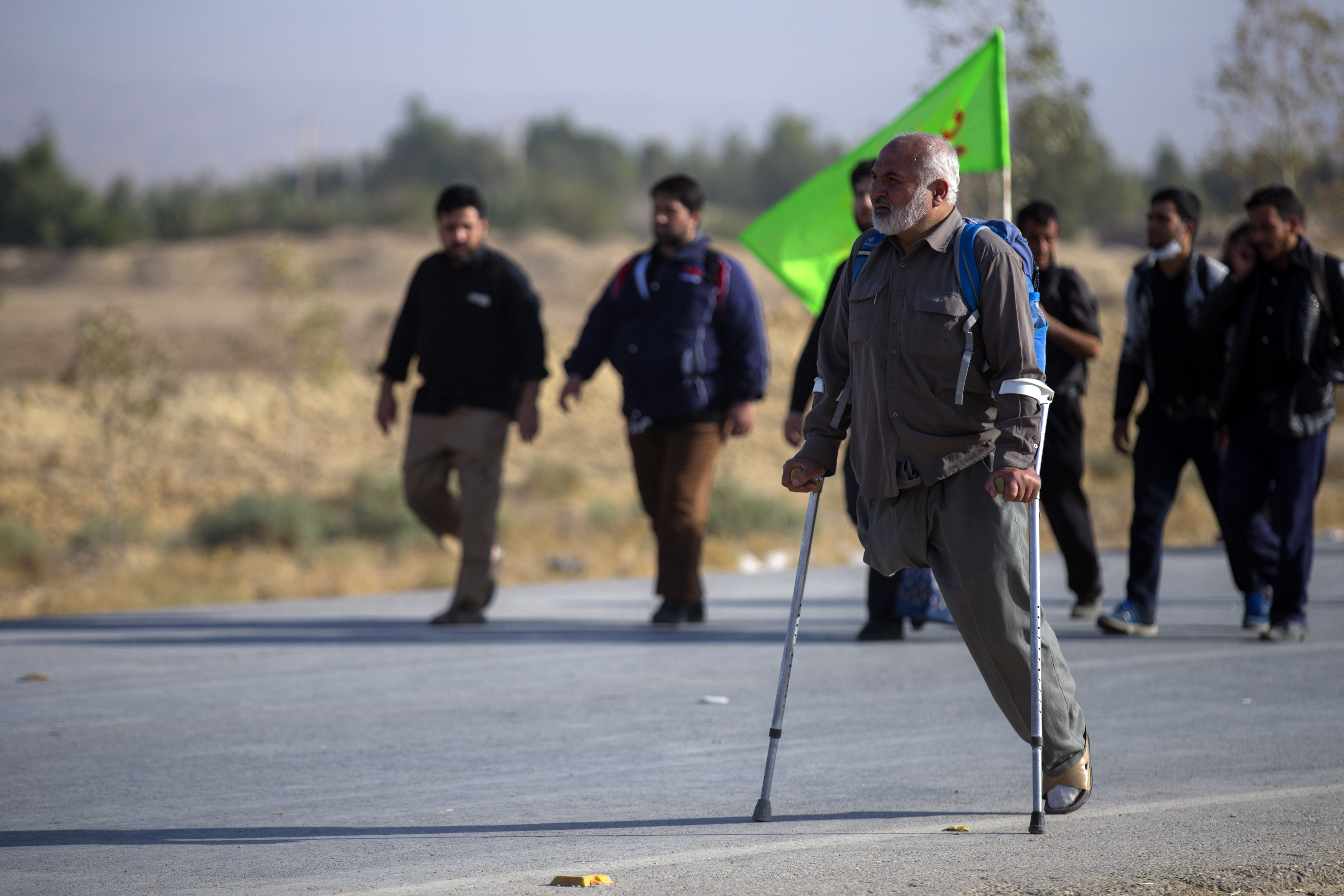 The Arba'een Pilgrimage is the world's largest public gathering that is held every year in Iraq. This Ziyarah (pilgrimage) is held at the end of the 40-day mourning period following Ashura, the religious ritual for the commemoration of the Prophet Mohammad's grandson Husayn ibn Ali's martyrdom in 680.